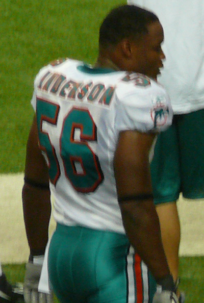 If used somewhere other than Wikipedia, Nelson, by name.